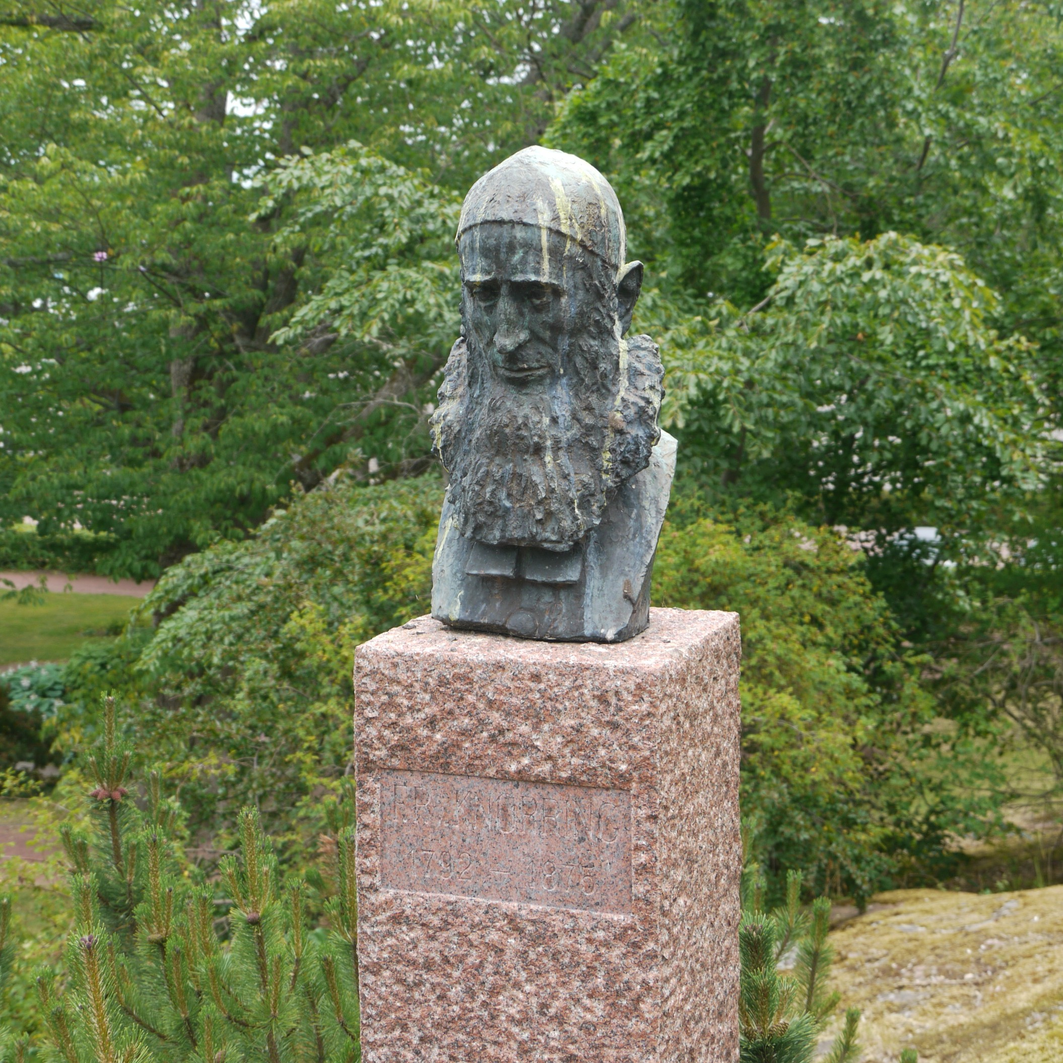 Statue of F.P. von Knorring in front of the town hall of Mariehamn, Åland